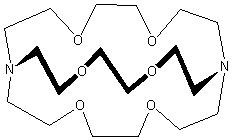 Cryptand[2.2.2]